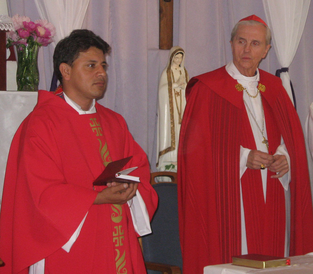 Ceremony of Inauguration of Our Lady of Guadalupe Anglican Catholic Mission, South Side Chicago